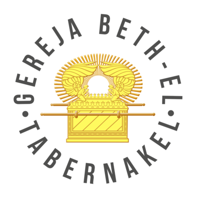 Logo of Gereja Beth-El Tabernakel